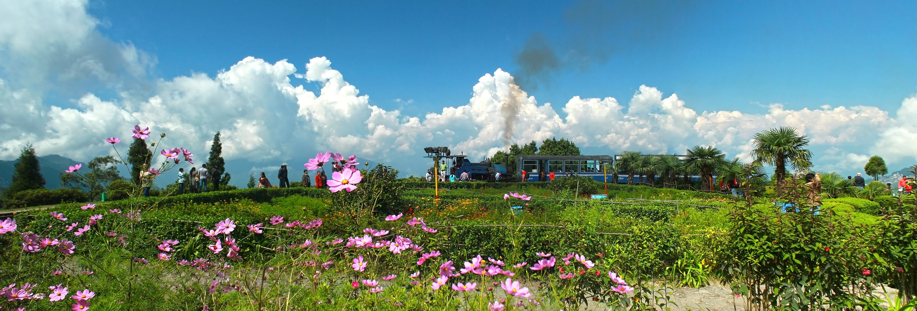 The Batasia Loop was created to lower the gradient of ascent of the Darjeeling Himalayan Railway in Darjeeling district of West Bengal, India. At this point, the track spirals around over itself through a tunnel and over a hilltop. It was commissioned in 1919. Original image caption: TOY TRAIN OF N.F. RAILWAY AT BATASIA LOOP, DARJEELING, INDIA PHOTOGRAPH BY : VIKRAMJIT KAKATI